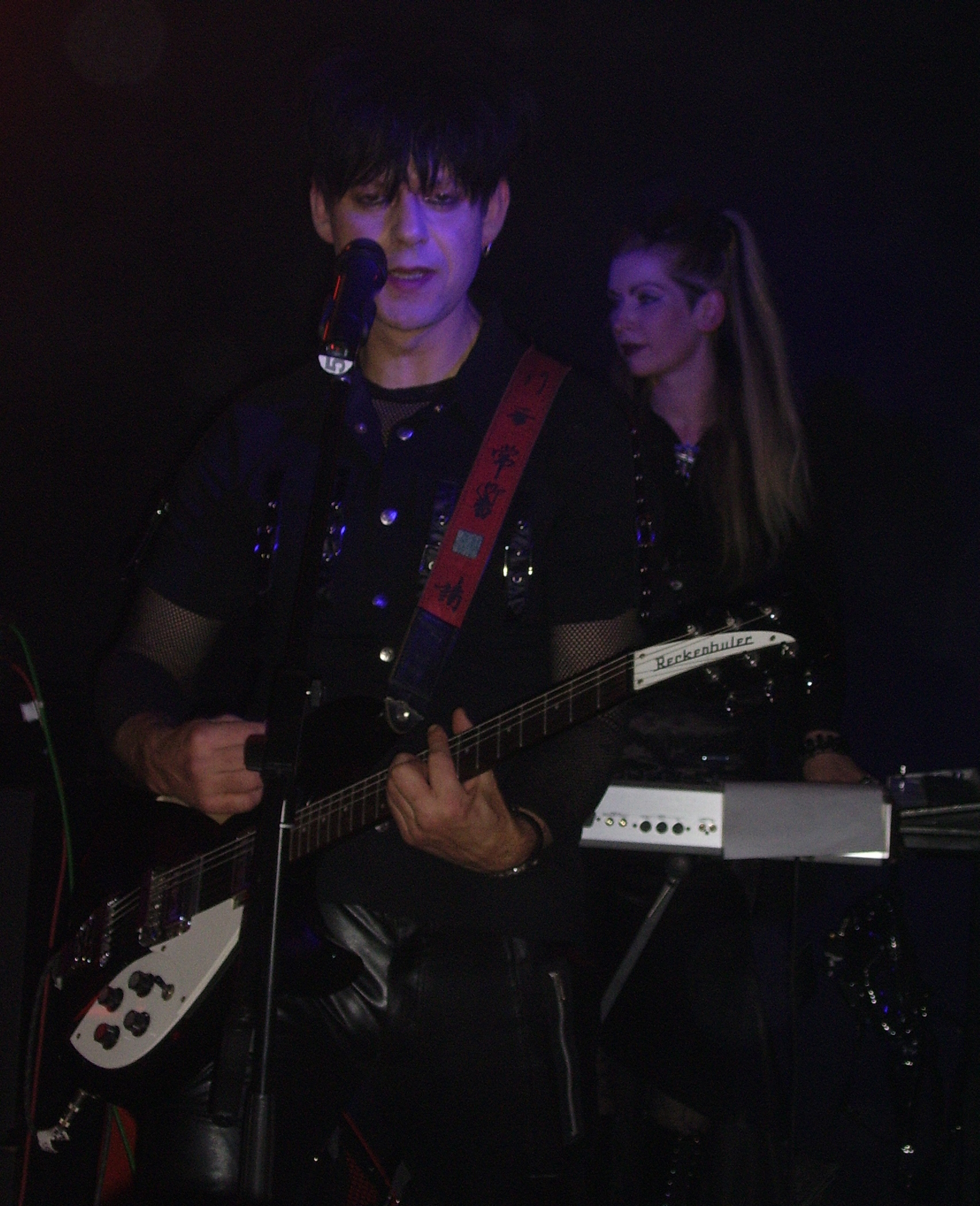 Ronny Moorings and Yvonne de Ray of Clan of Xymox live in Sofia.